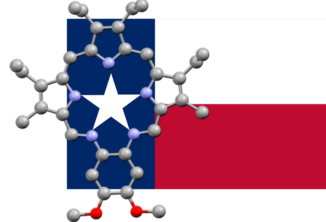 Texaxphyrin Nitrogen superimposing with the five points of the star featured on the state flag of Texas.